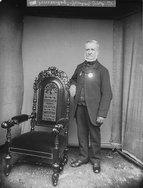 1 negative : glass, dry plate, b&w ; 21.5 x 16.5 cm.